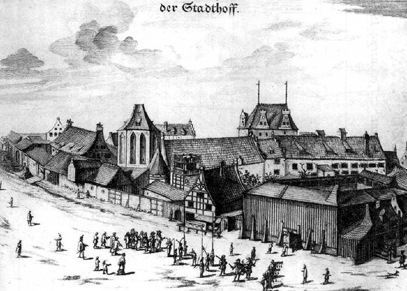 Gdańsk Fencing School - first theatre building of Gdańsk